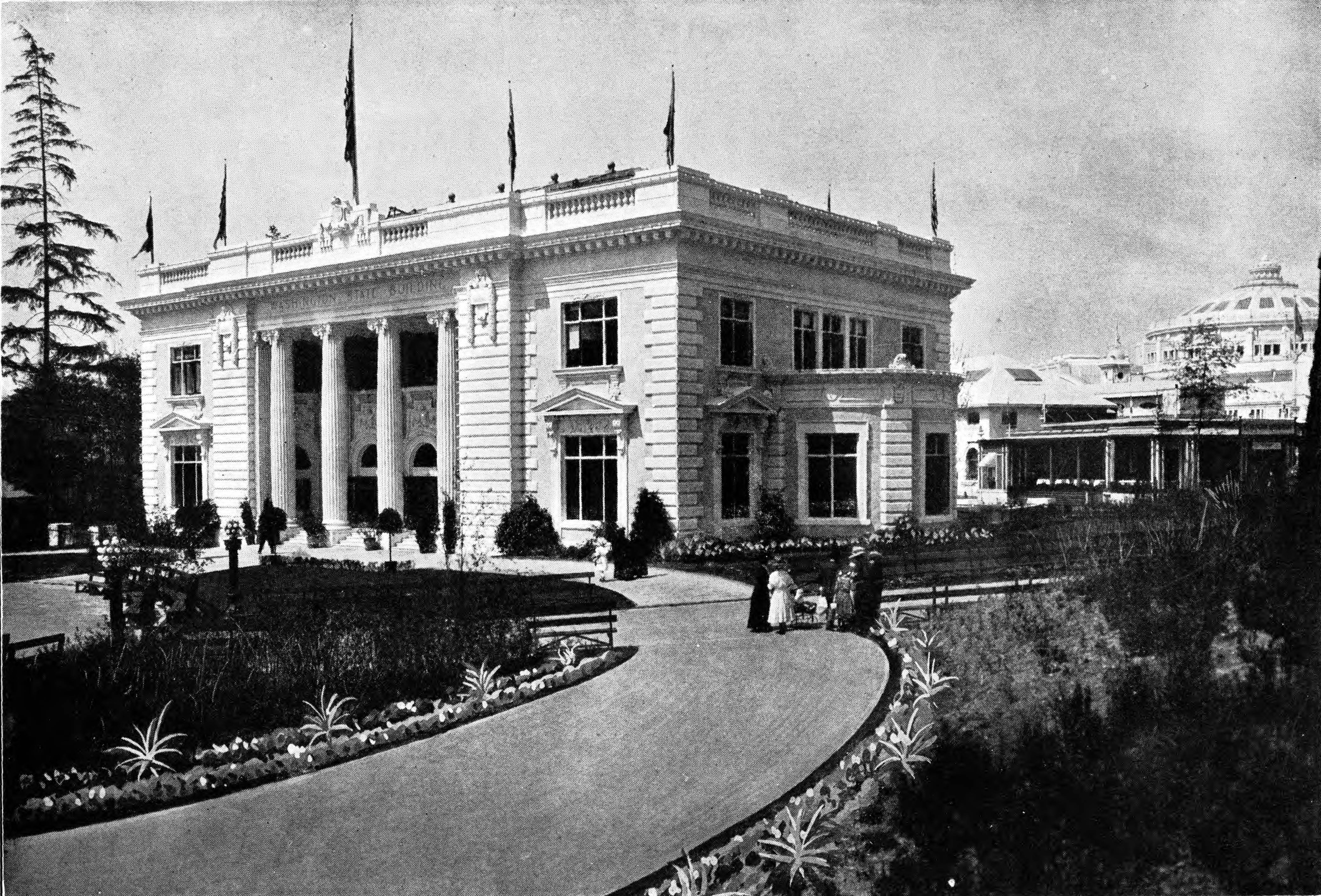 Alaska-Yukon-Pacific Exposition Washington State Building From the materials for the Alaska-Yukon-Pacific Exposition of 1909, held in Seattle.